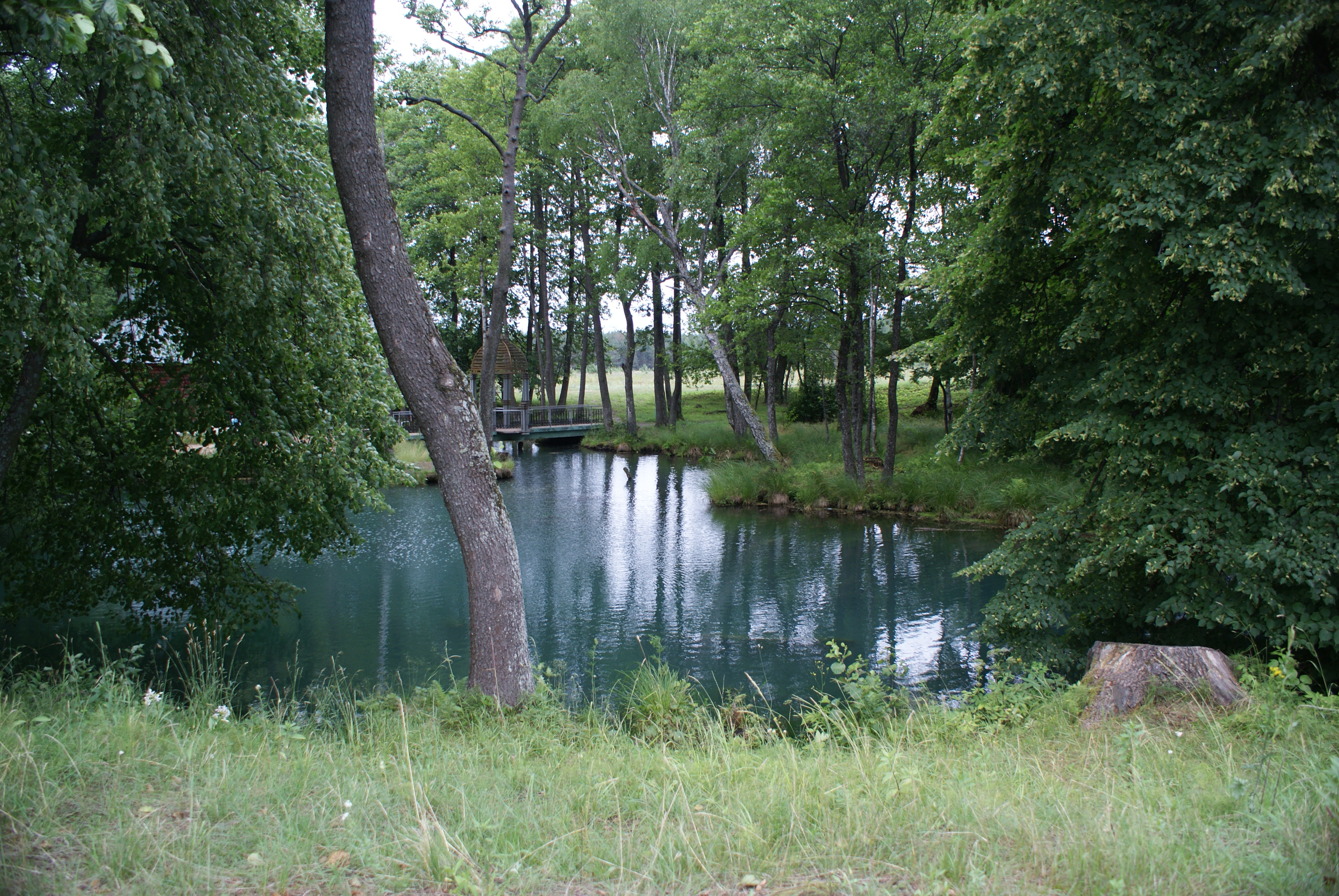 Golubaya Krynitsa in Slavgorod district